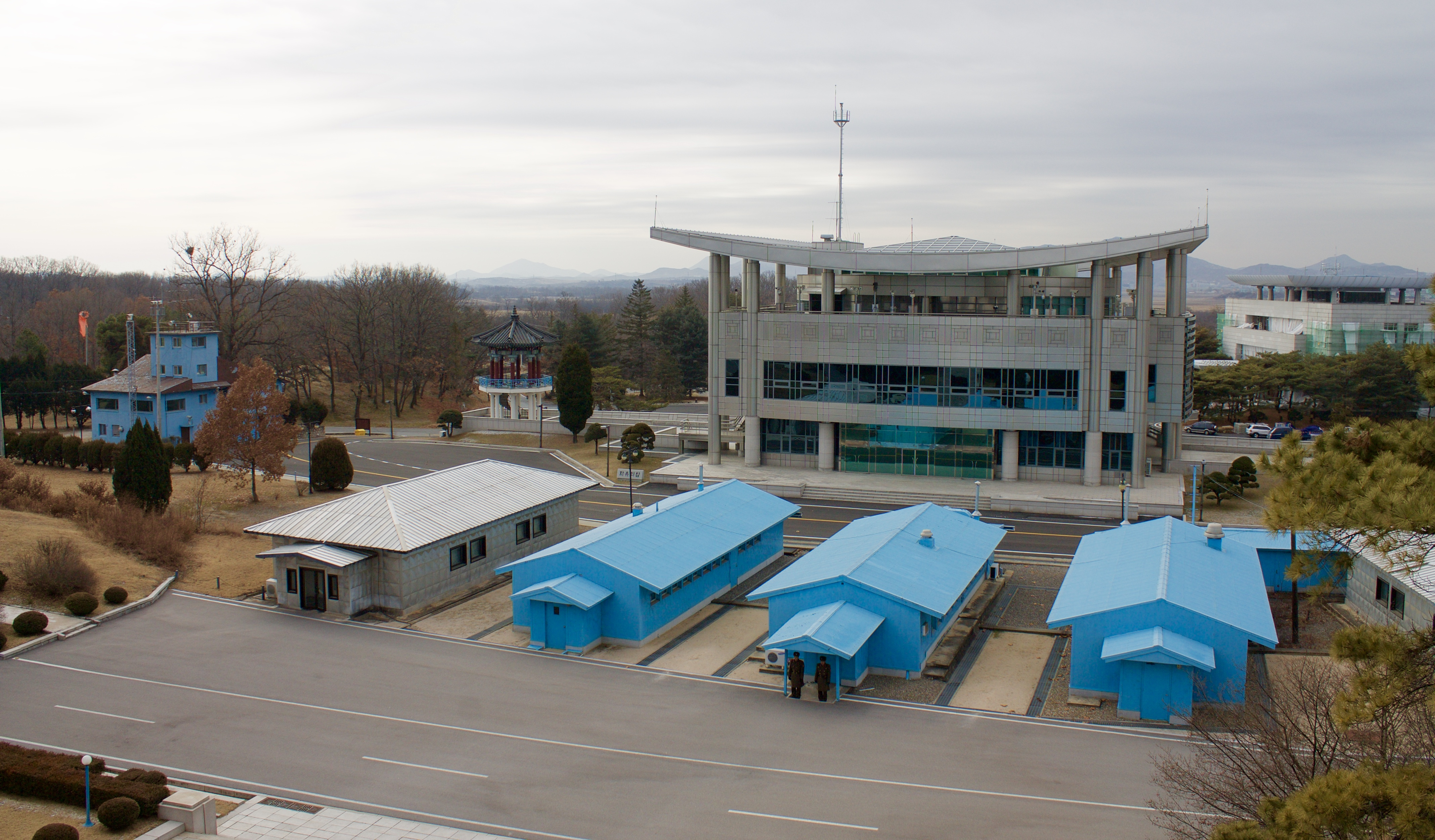 DMZ, looking at South